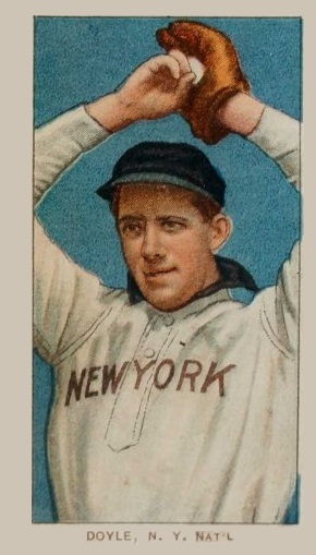 Vintage baseball card of Joe Doyle